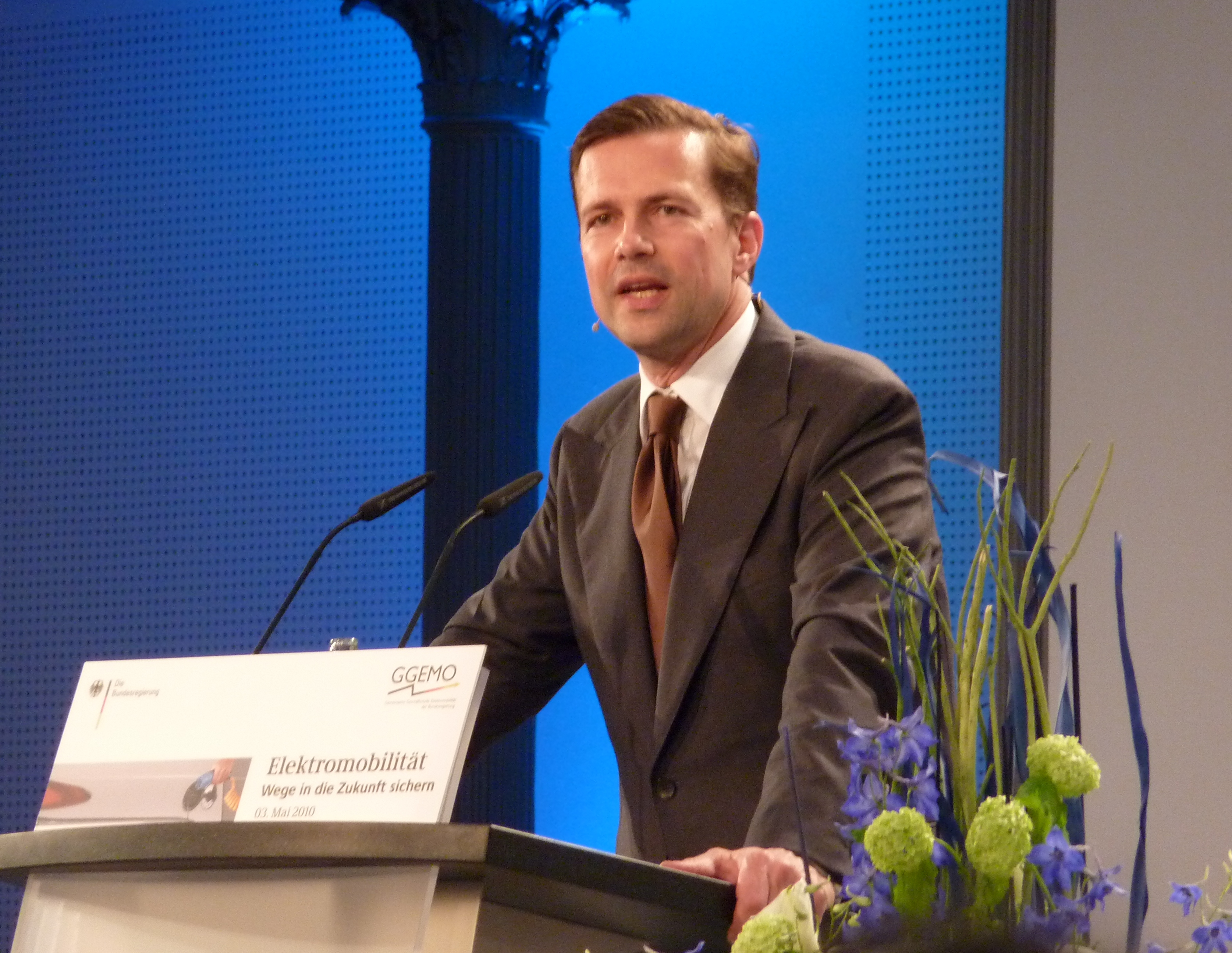 Steffen Seibert, Speaker of the German government, 2010